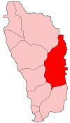 Map of Dominica showing Saint David parish.